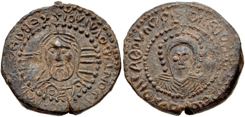 BULGARIA, First Empire. Simeon I Veliki. 893-927. PB Seal (25mm, 17.89 g, 12h). Facing bust of Christ Pantokrator / Facing bust of the Theotokos (Virgin Mary). Iordanov Type III.2.A. Near EF, grayish-green surfaces.